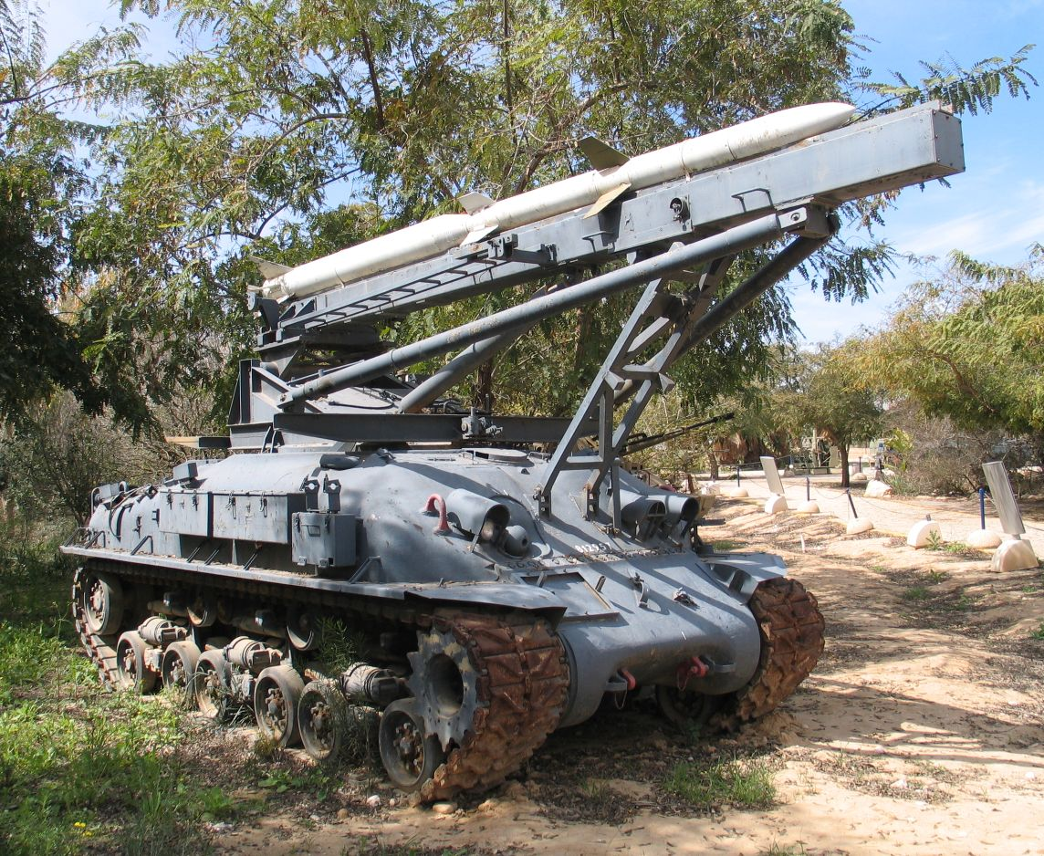 Description: Kachlilit AGM-45 Shrike anti-radiation missile launcher at Muzeyon Heyl ha-Avir, Hatzerim, Israel. 2006. Source: Photo by me, User:Bukvoed.